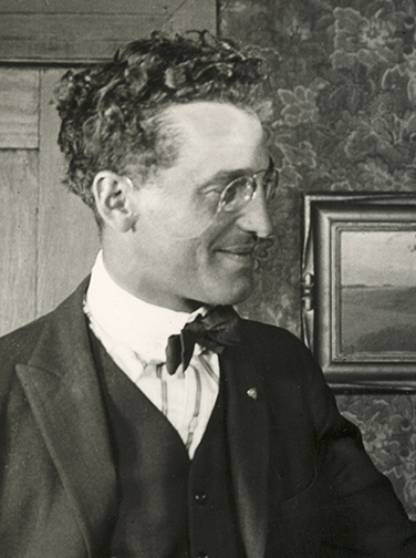 Silent film director Philip Rosen from a publicity still on the set of The Road to Divorce (1920).